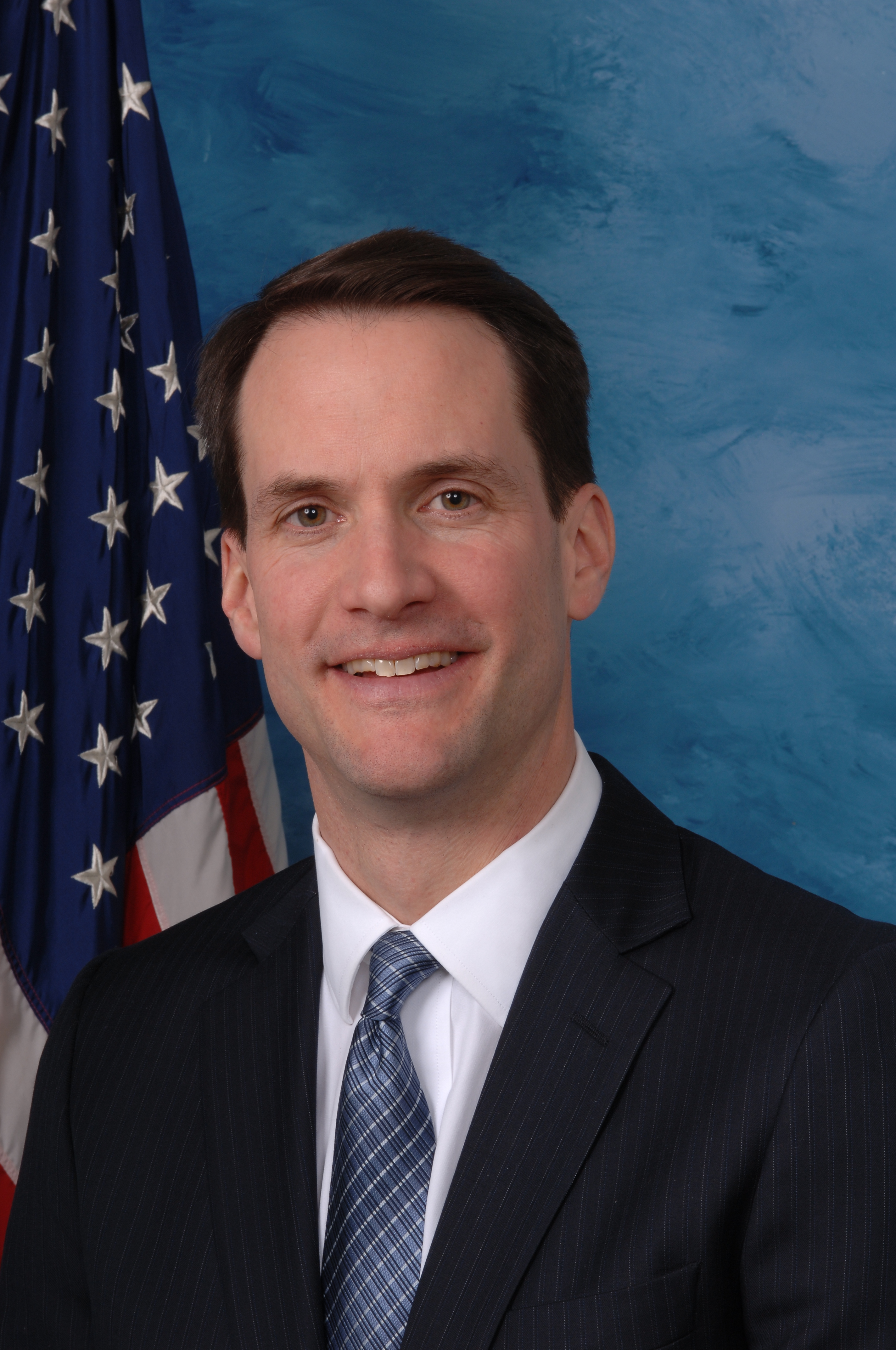 Jim Himes, member of the United States House of Representatives.